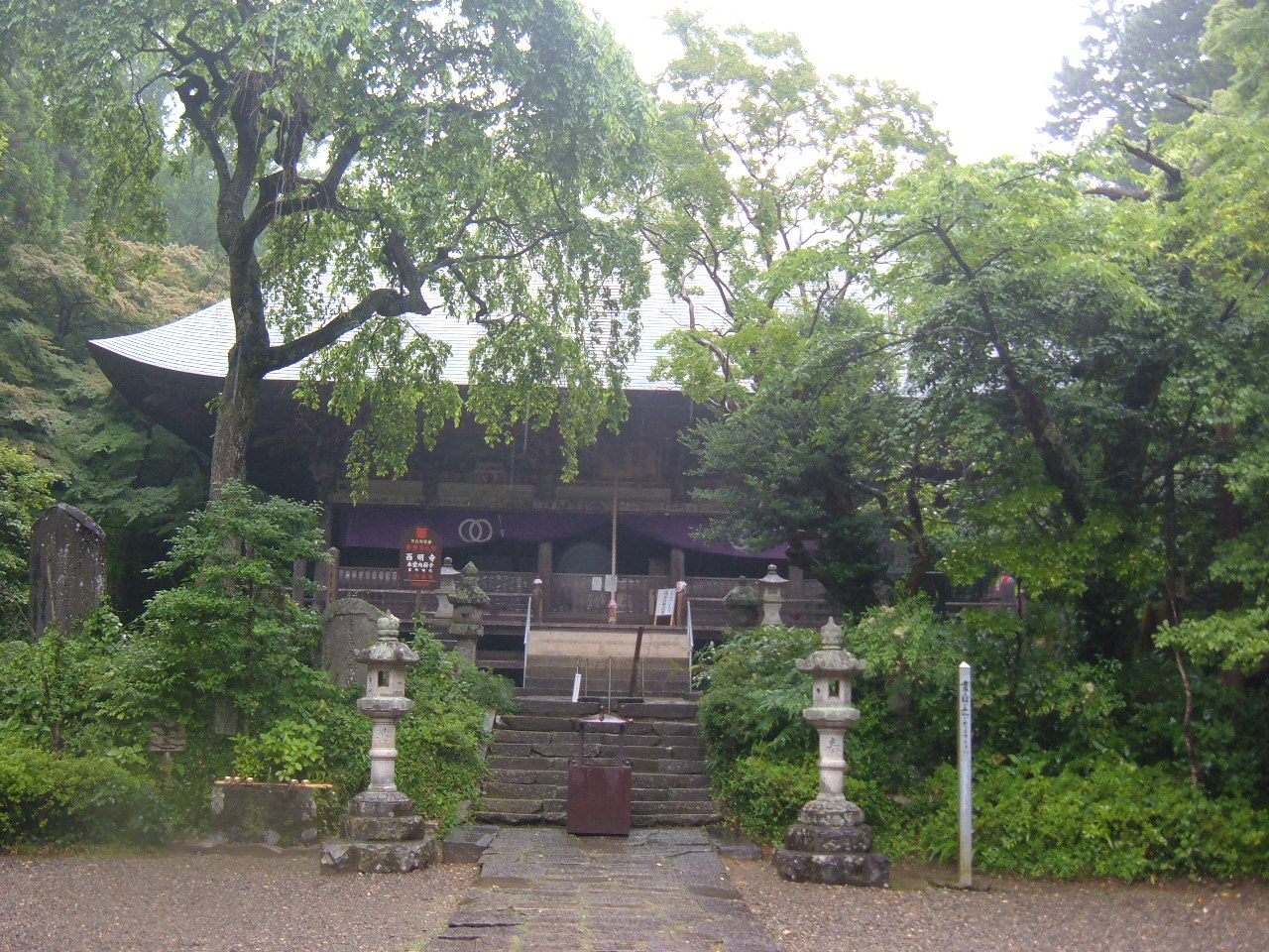 The main temple.